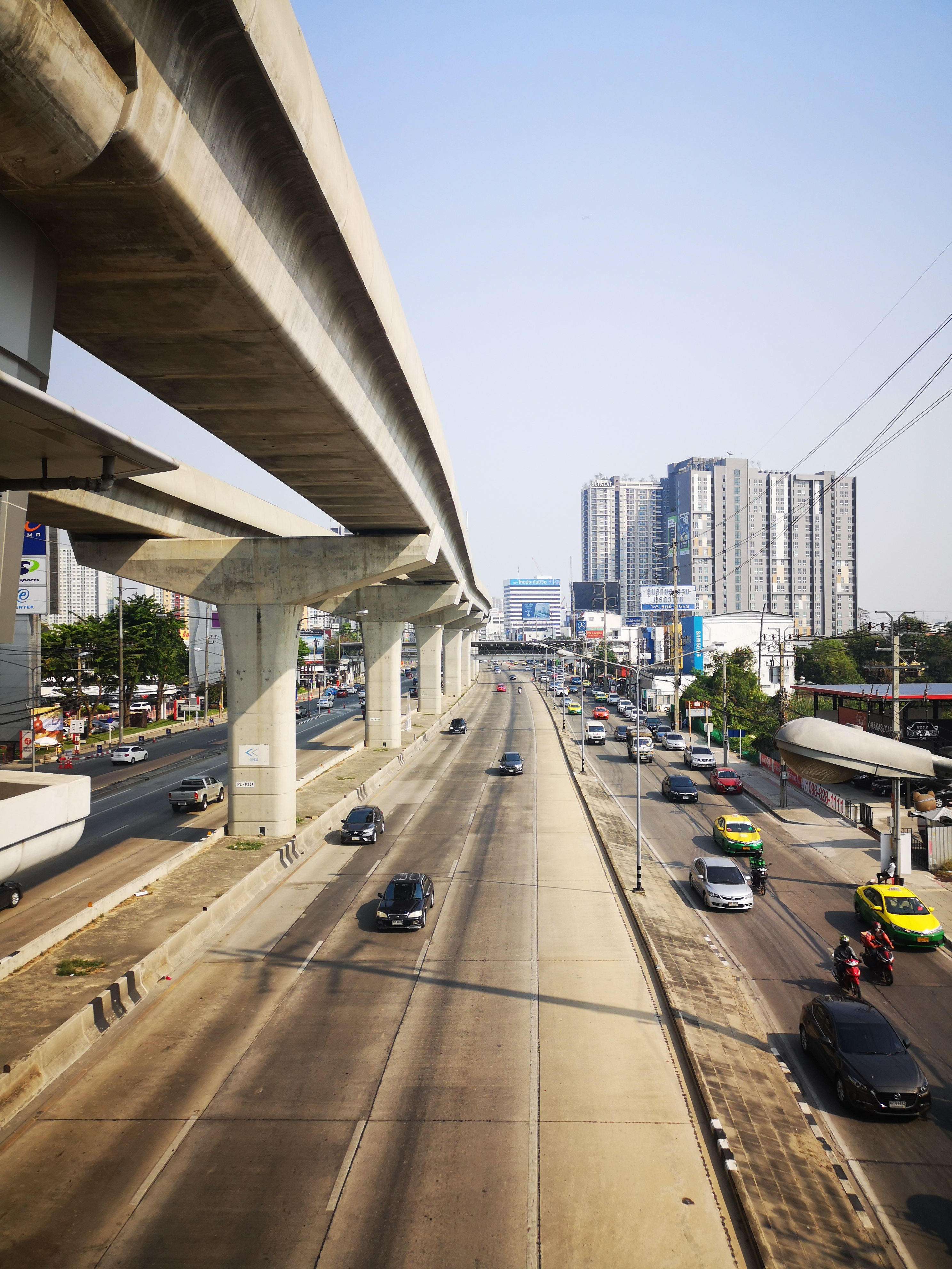 Thanon Rattanathibet